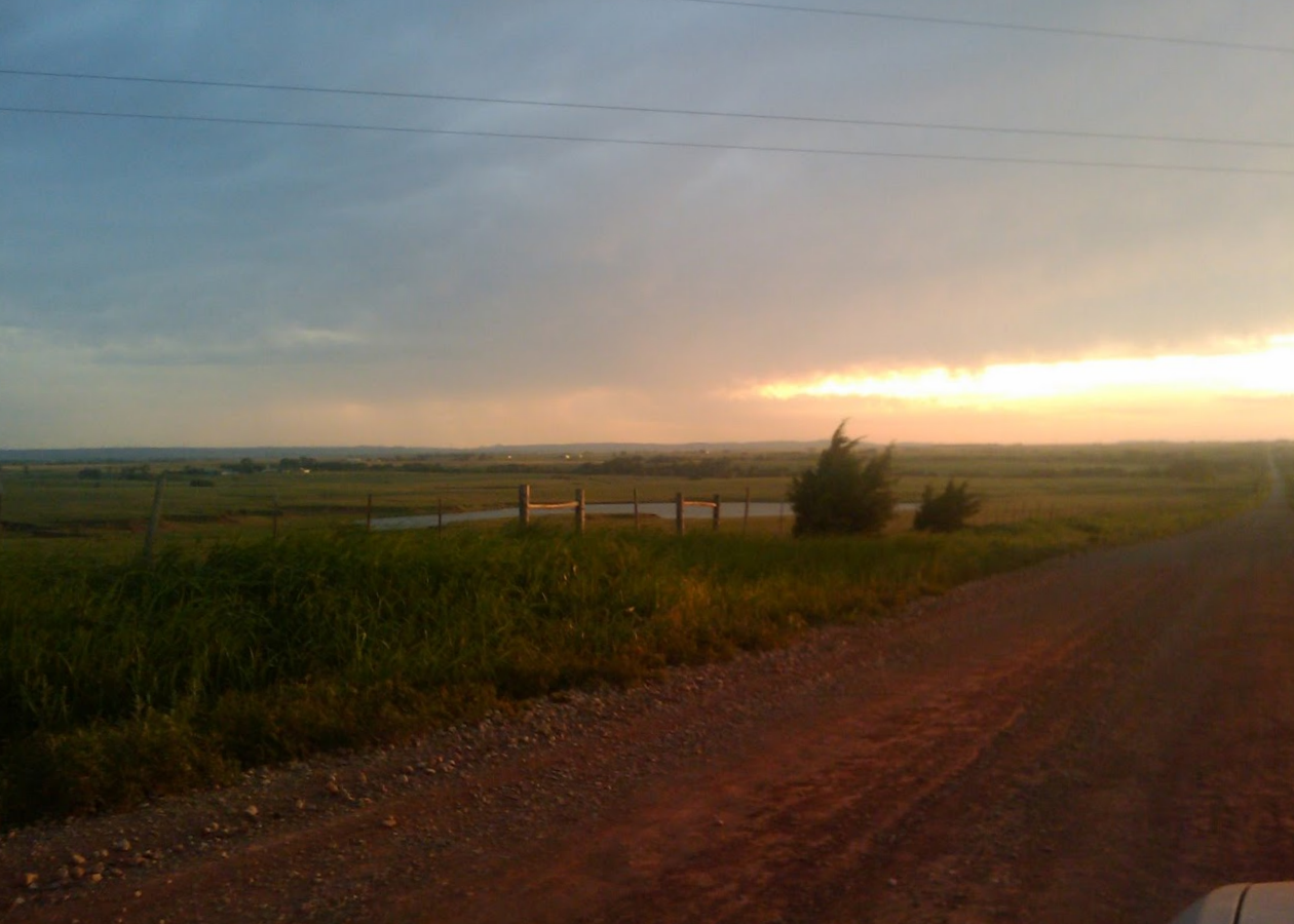 Photo shot at sunset, looking towards the southwest from Pine Ridge, Oklahoma, showing the Old Ozark trail heading westward. Camera embedded data says the picture was taken on June 6, 2009, 8:29 pm. Photo by James M. Branum